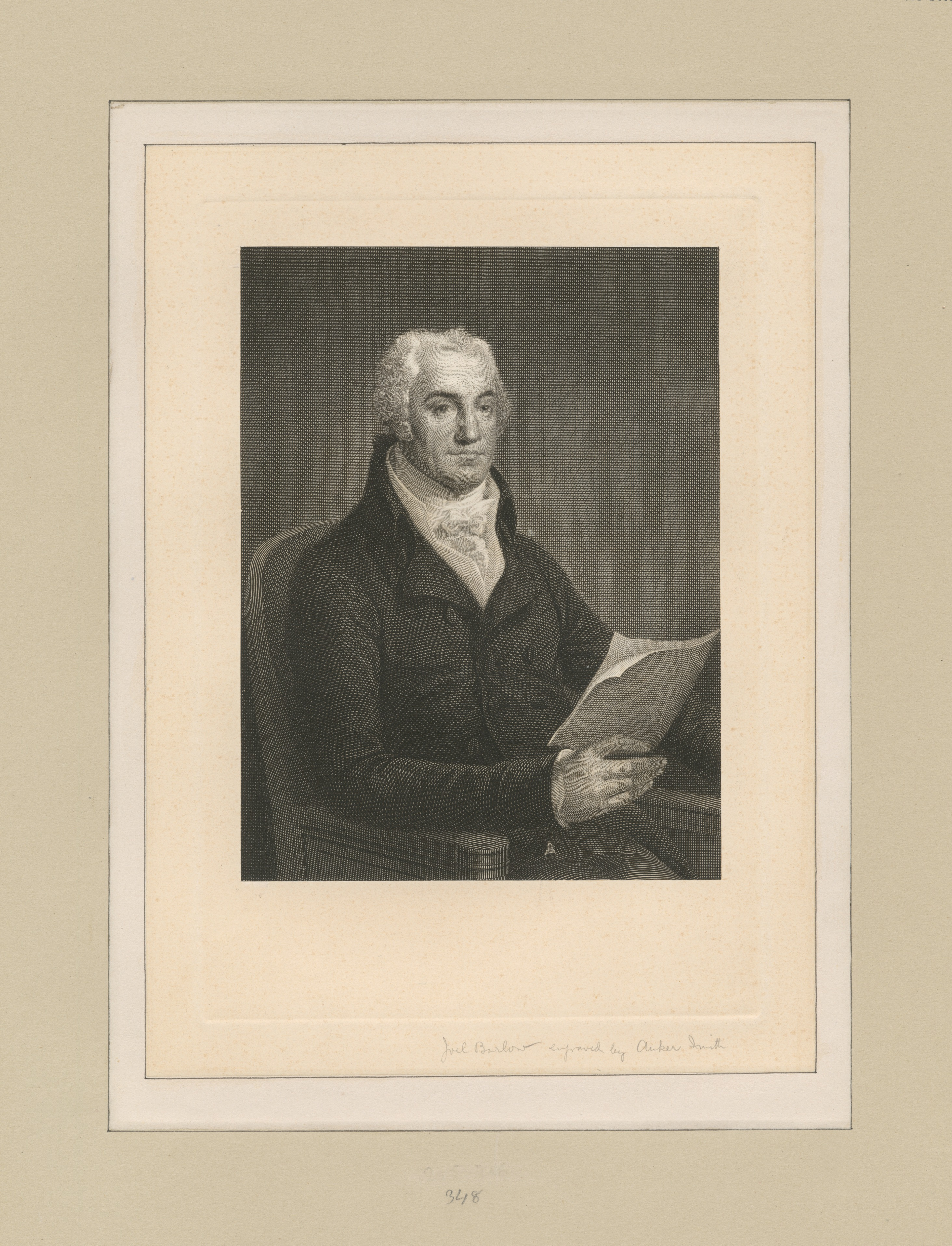 Includes photomechanical reproductions. Printmakers include Francesco Bartolozzi, William Russell Birch, Asher Brown Durand, James Barton Longacre, Archibald Robertson, Samuel Sartain & Hezekiah Wright Smith. Draughtsmen include David McNeely Stauffer. Title from Calendar of Emmet Collection. EM10210 Statement of responsibility : [Anker Smith]